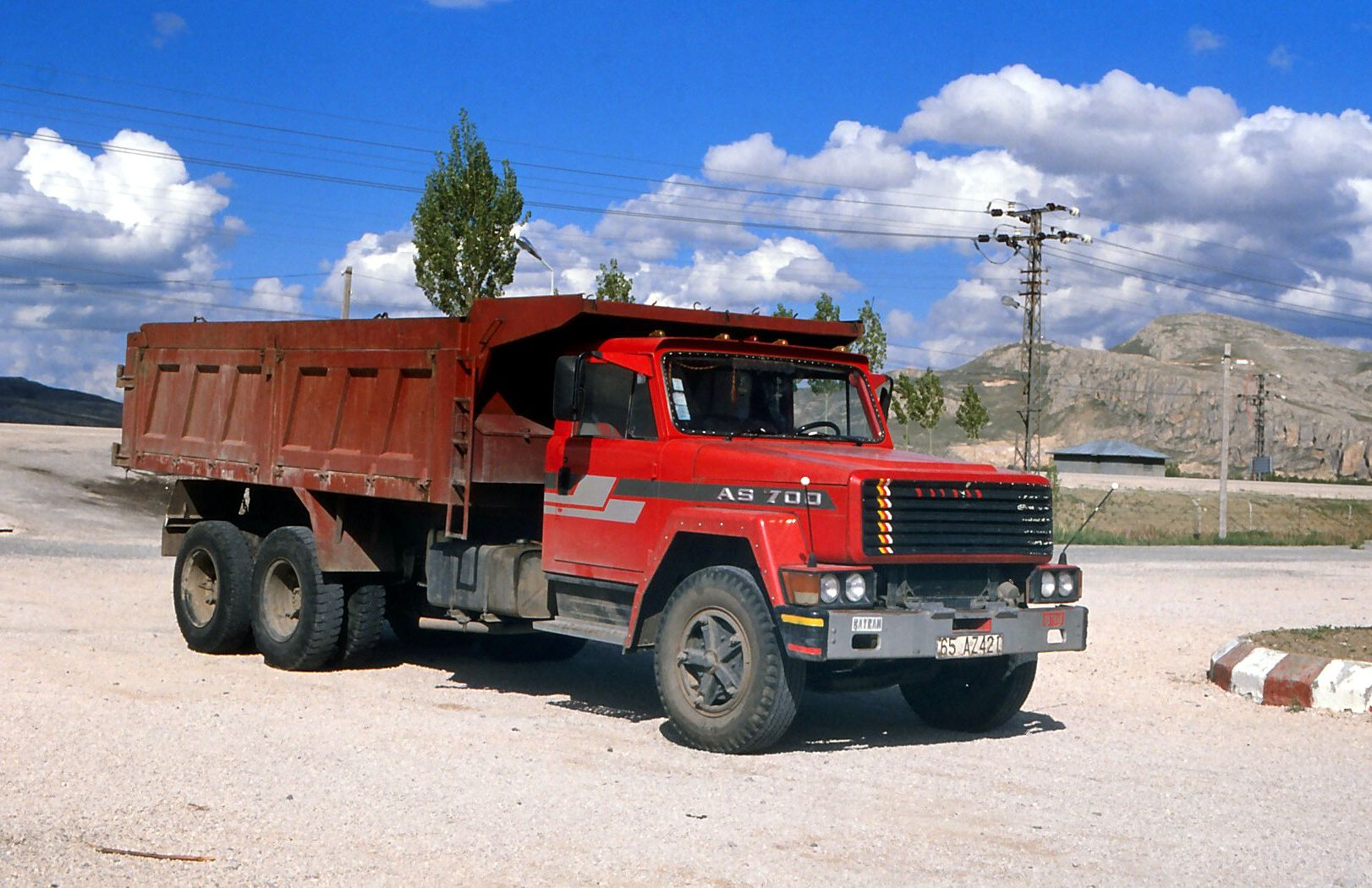 photo taken in turkey 1989 (T.S. thanks for the info)